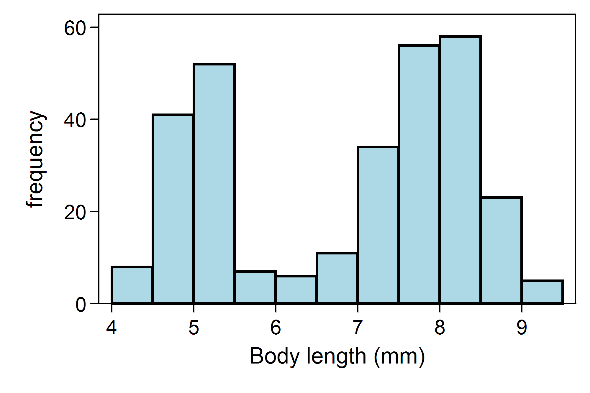 Histogram of body lengths of weaver ant workers